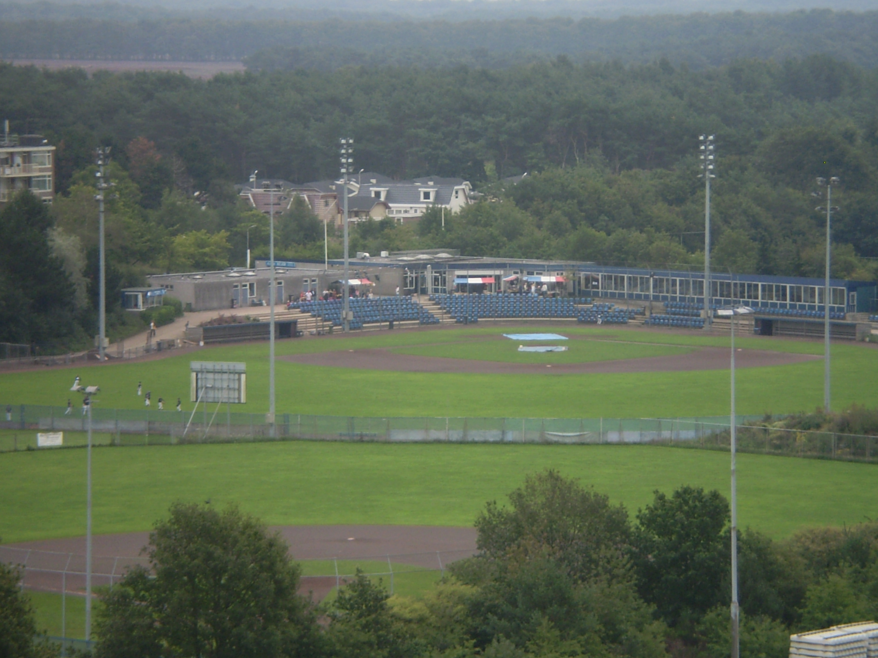 View from water tower upon HCAW baseball stadium